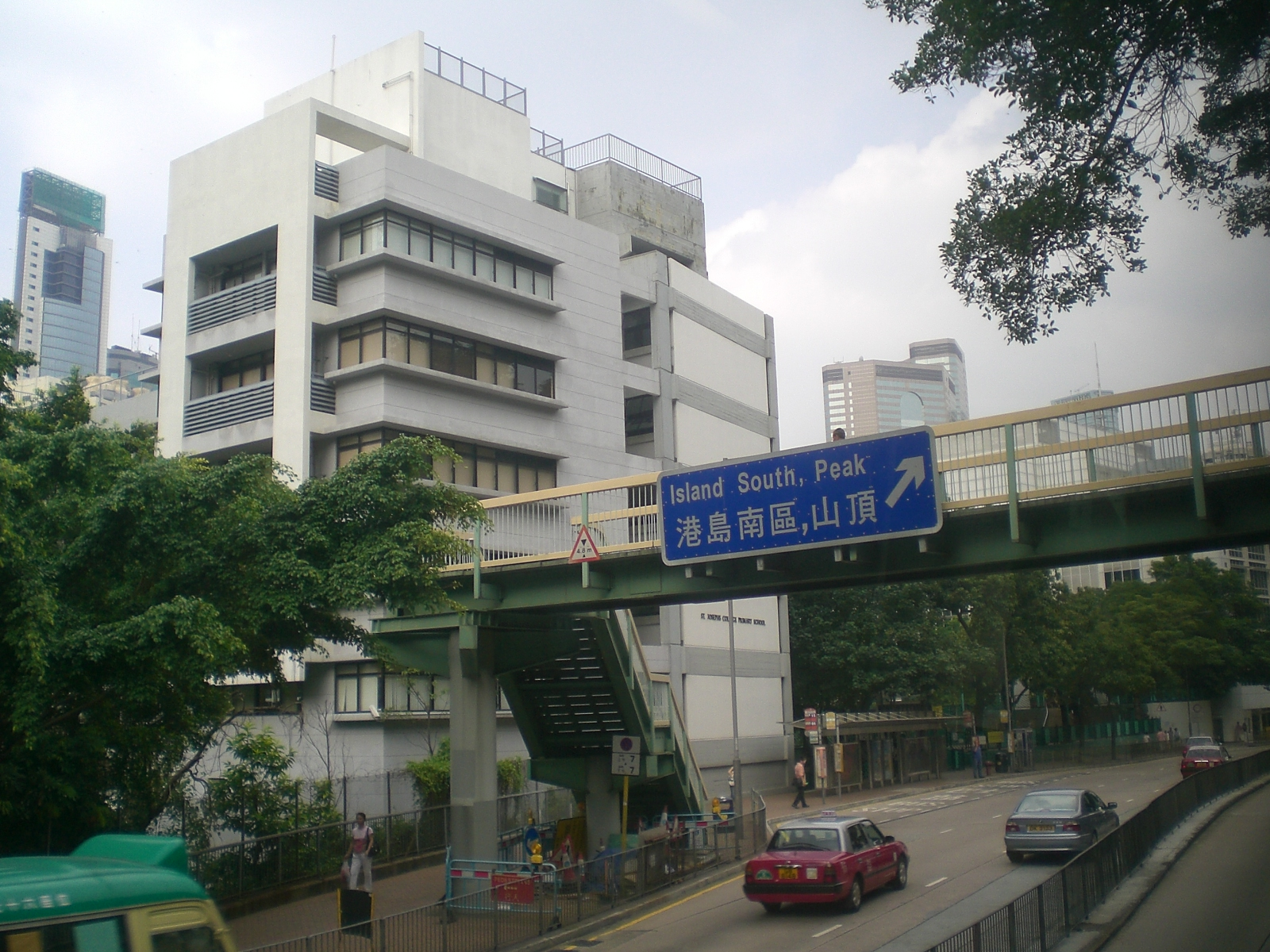 灣仔zh:皇后大道東聖若瑟小學